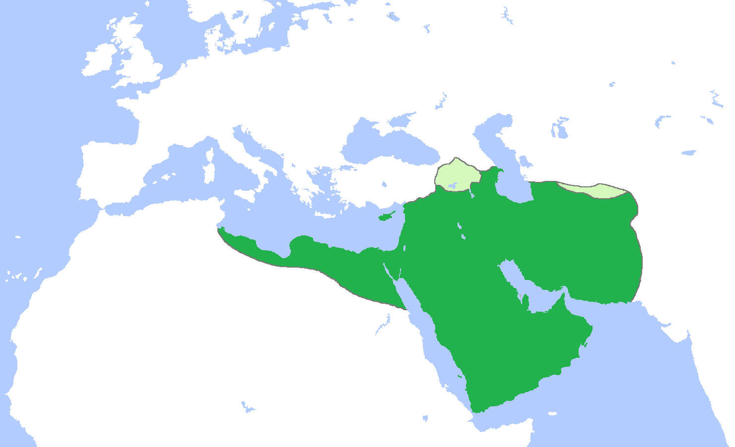 Map of the Rashidun Caliphate (dark green) with vassal states (light green), c. 654. (Partially based on several other Wikimedia Commons maps of the Rashidun Caliphate).